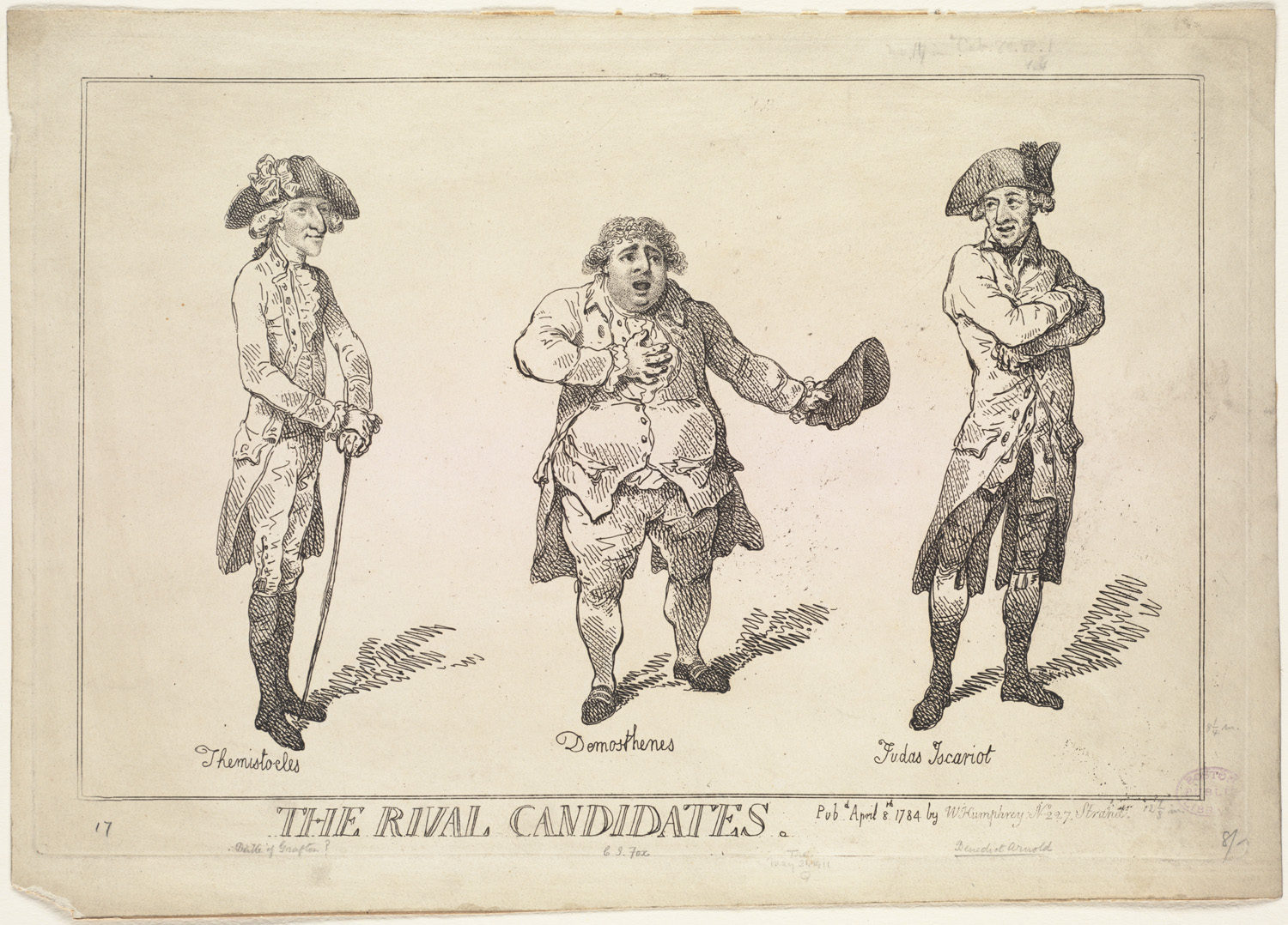 File name: 11_03_000046 Box label: American related cartoons, 5859 - 6815 Title: The rival candidates Translated title: Creator/Contributor: Rowlandson, Thomas, 1756-1827 (artist) Date issued: 1784-04-08 Physical description: 1 print : engraving ; 10 1/4 x 14 1/2 in. Summary: Fox is Demosthenes. Lord Hood is Themistocles. Sir Cecil Wray, who betrayed Fox, is Judas Iscariot. Genre: Political cartoon; Engravings Subjects: Hood, Samuel Hood, Viscount, 1724-1816; Wray, Cecil, Sir, 1734-1805; Fox, Charles James, 1749-1806; United States--History--Revolution, 1775-1783; Politics & government; Government officials Notes: References: Catalogue of prints and drawings in the British Museum, no. 6510 (BM 6510) Statement of responsibility: Collection: Americana Collection Location: Boston Public Library, Print Department Rights: No known restrictions